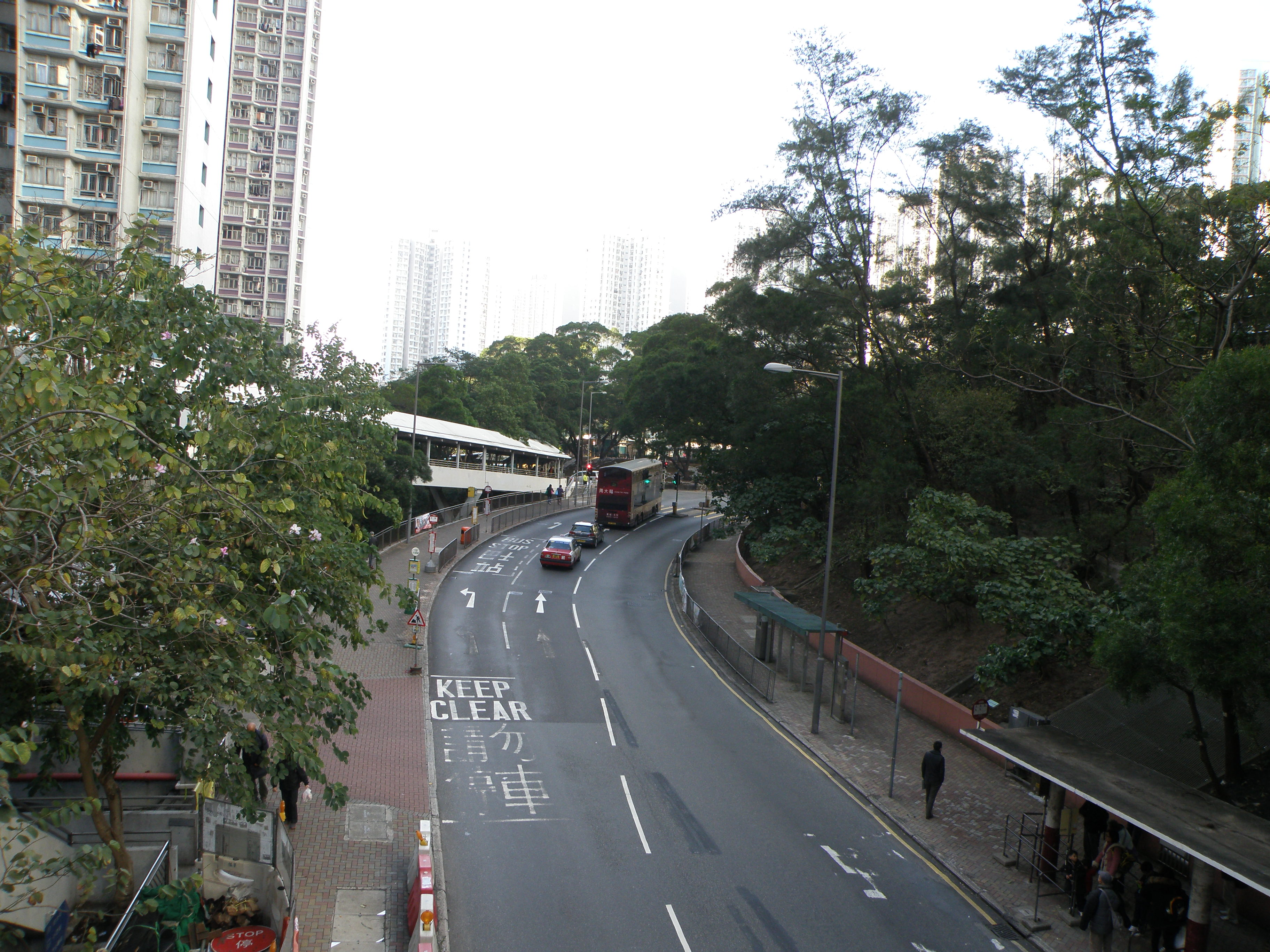 Tsz Wan Shan Road in Wong Tai Sin District, Hong Kong.